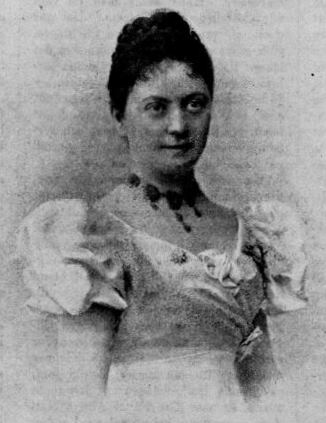 Margarethe Stern, born Herr (1857-1899), German pianist